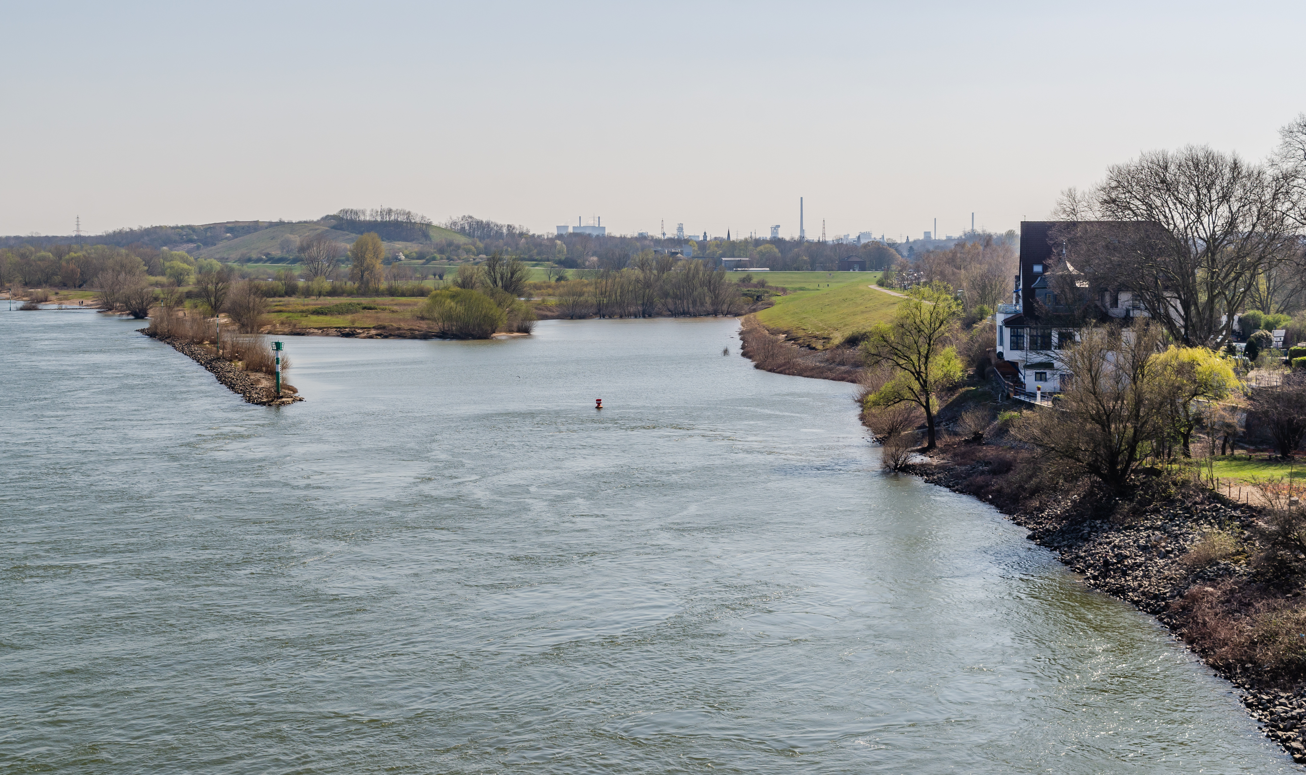 Duisburg (North Rhine-Westphalia, Germany) – borough Rheinhausen, district Bergheim – former Mevissen Habour at the Rhine